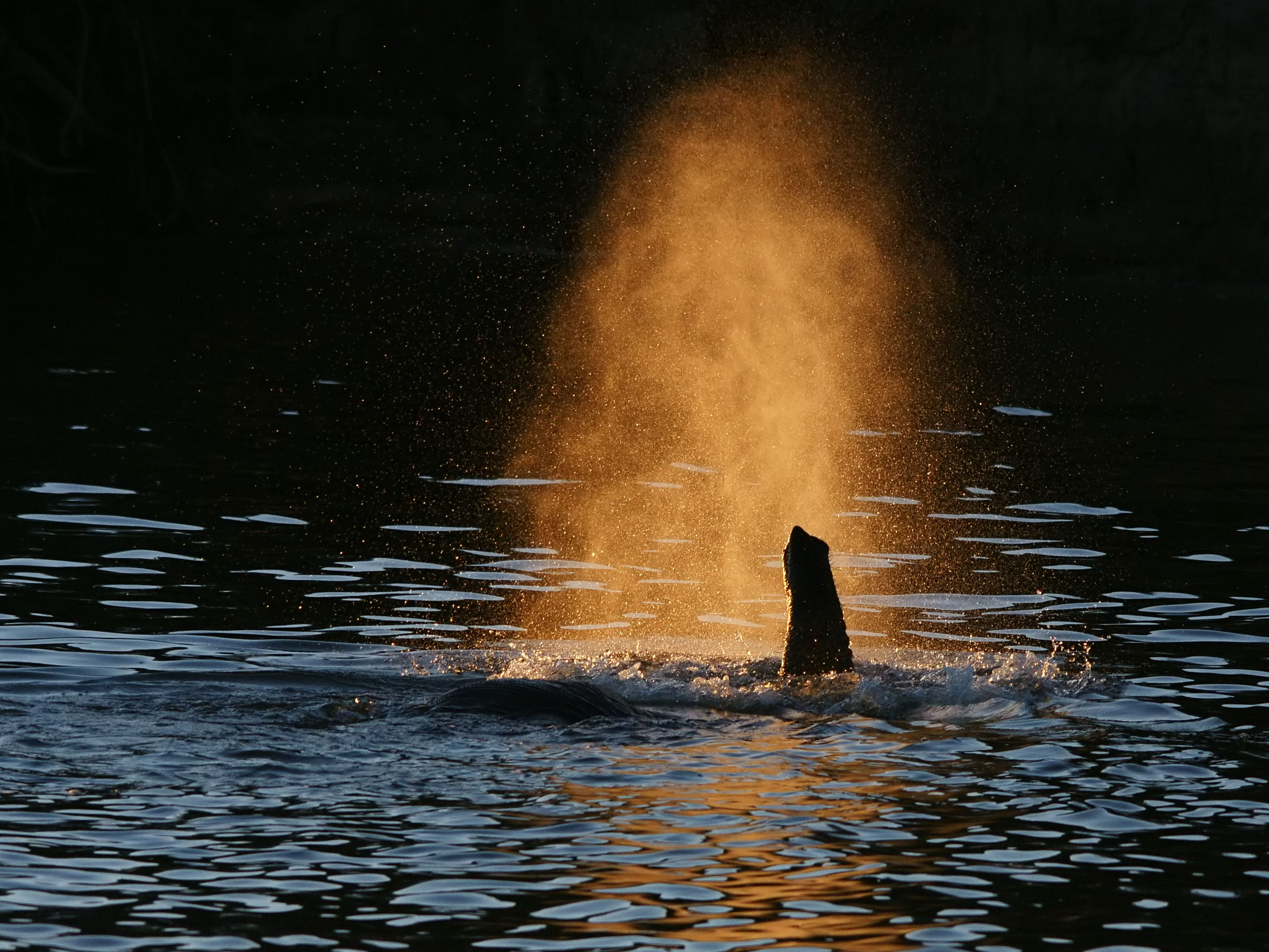 Elephant crossing the Zambezi near Mosi-oa-Tunya National Park, Livingstone, Zambia.